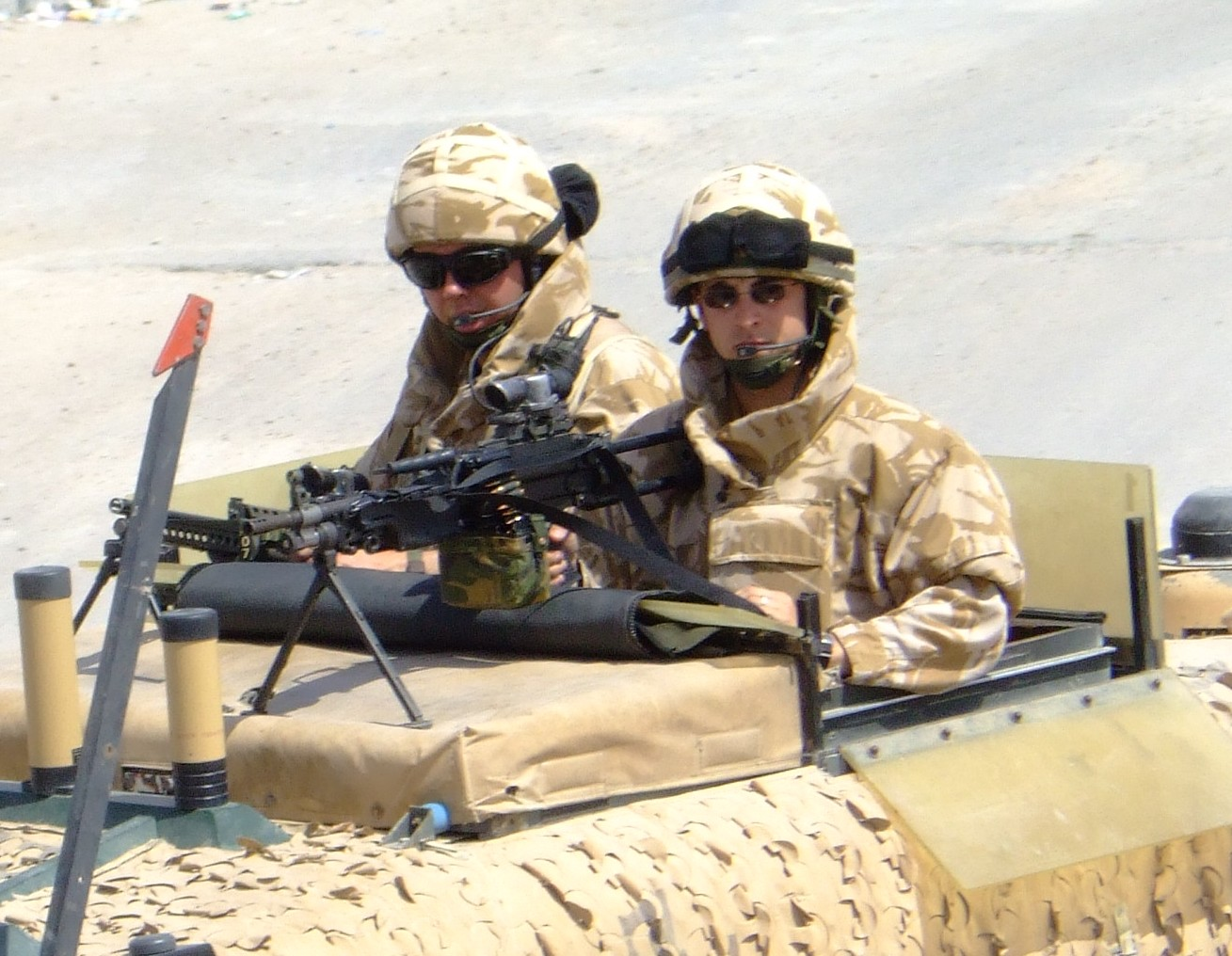 Two members of the RAF Regiment returning to Basra Air Station in May 2006 providing top-cover in a Snatch Land Rover. Both are wearing the short-lived Kestrel Body Armour suits, nicknamed 'Elvis Suits' because of the high collar.